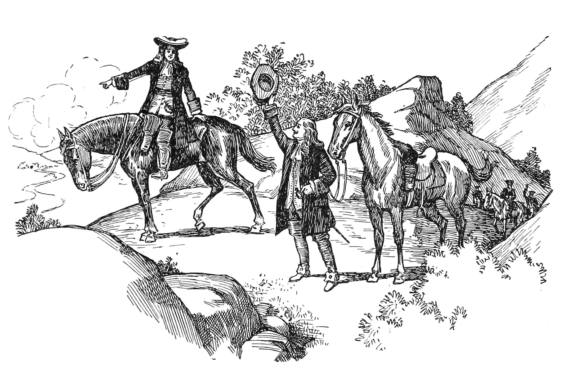 Illustration titled "Governor Spotswood and the Knights of the Golden Horseshoe Crossing the Blue Ridge" from the 1904 book Makers of Virginia History.